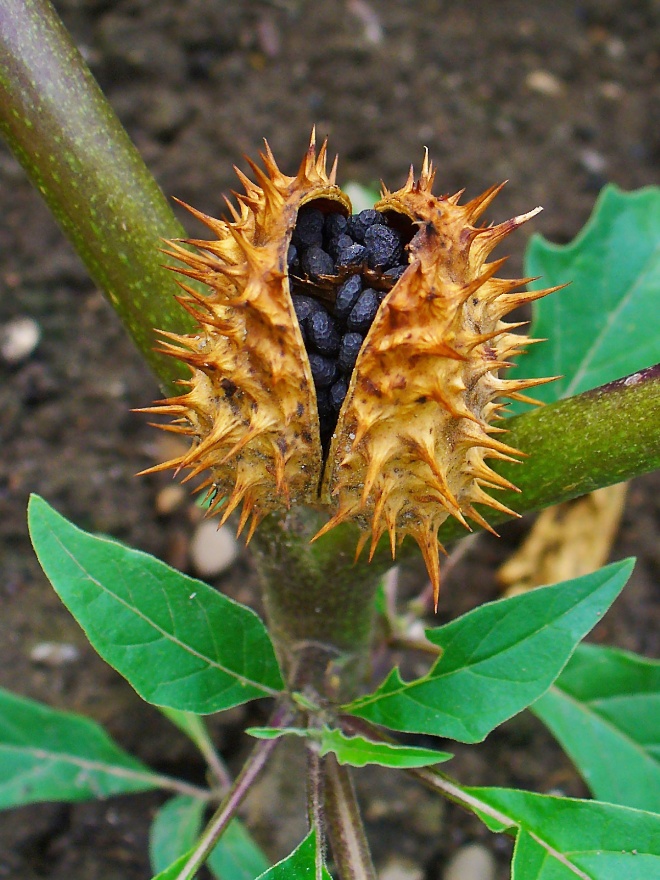 Datura stramonium, Solanaceae, Jimson Weed, Angel's Trumpet, Devil's Weed, Thorn Apple, Tolguacha, Jamestown Weed, Stinkweed, Datura, Moonflower, ripe fruit; Botanical Garden KIT, Karlsruhe, Germany. The blooming plant is used in homeopathy as remedy: Stramonium (Stram.)